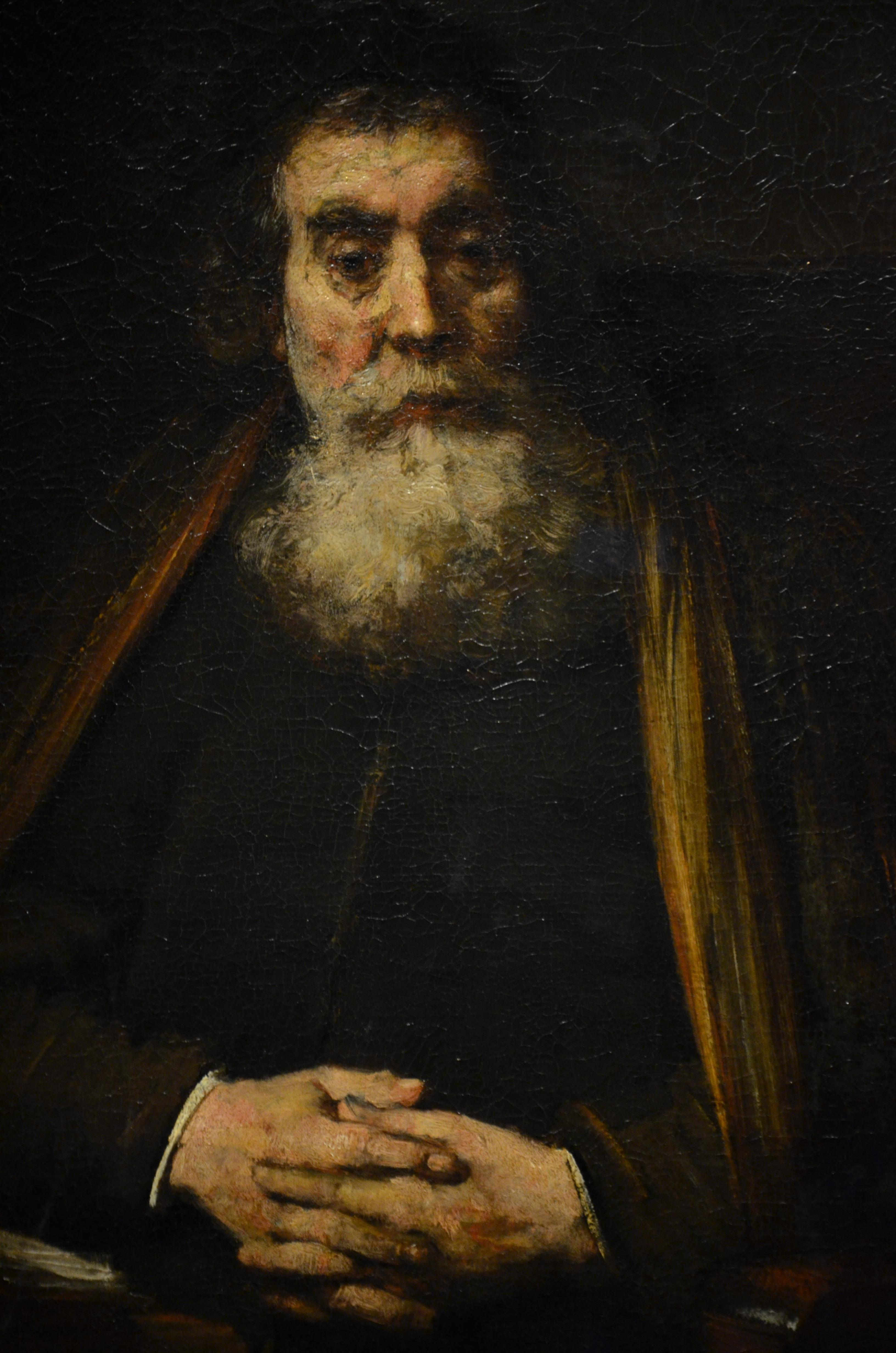 Rembrandt, Old Man, possibly a portrait of Jan Amos Comenius 1665